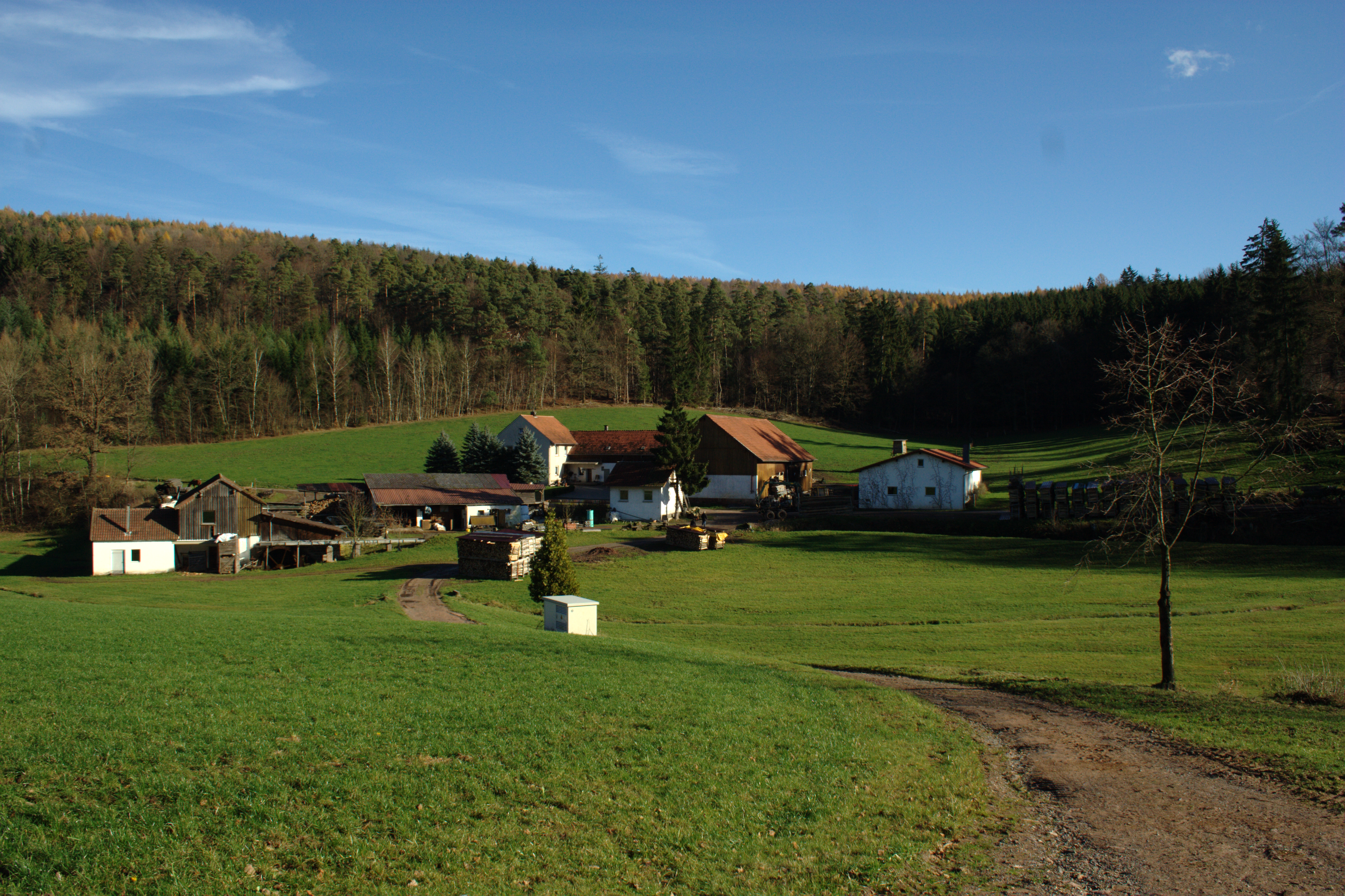 Zwickmühle in Hosenfeld / Neuhof